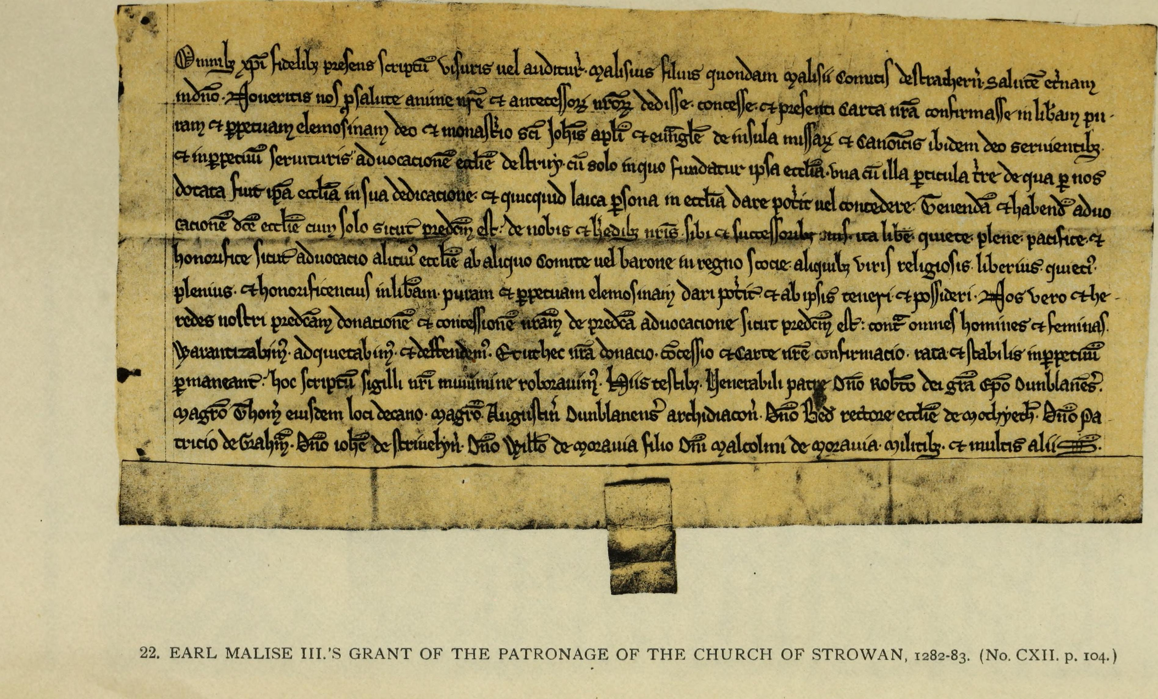 Title: Charters, bulls and other documents relating to the abbey of Inchaffray, chiefly from the originals in the charter chest of the Earl of Kinnoull; Year: 1908 (1900s) Authors: Inchaffray Abbey Lindsay, William Alexander, 1846-1926, ed Dowden, John, 1840-1910, joint ed Thomson, J. Maitland (John Maitland), joint ed Subjects: Inchaffray Abbey Publisher: Edinburgh, Printed by T. and A. Constable for the Scottish History Society Text Appearing Before Image: ' Text Appearing After Image: wlttMitmMtfmjule i it tic tnrruno tajti -6\ r rtwr1 as ana IJItfW. gjhatmmr-^«te ^« Wtt^tr^nJ^^AWtm ^mtum.^mitiogc^ f^UtyftMOA «^»*Wltu»«« 4 Itt U mJaffito* ainf Wane 4 cJUt^t^u» atltmt ^*^»*^?^ AtifflB^ w^WBk attWtwfi^ ! ;rrctti( Canute ©ttutttj confcnk «wbut cottlwlcmr* nuctcutatt ebeMf^t \